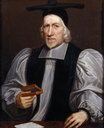 Portrait of HERBERT CROFT, BISHOP OF HEREFORD, (1603-1691), English School, c.1670, in the Hall at Croft Castle. CRO/P/13 Credit line: NTPL/John Hammond/Croft Castle, The Croft Collection (accepted in lieu of tax by H. M. Treasury and allocated to The National Trust in 2004) Property Name Croft Castle NTPL Ref. No. 129411